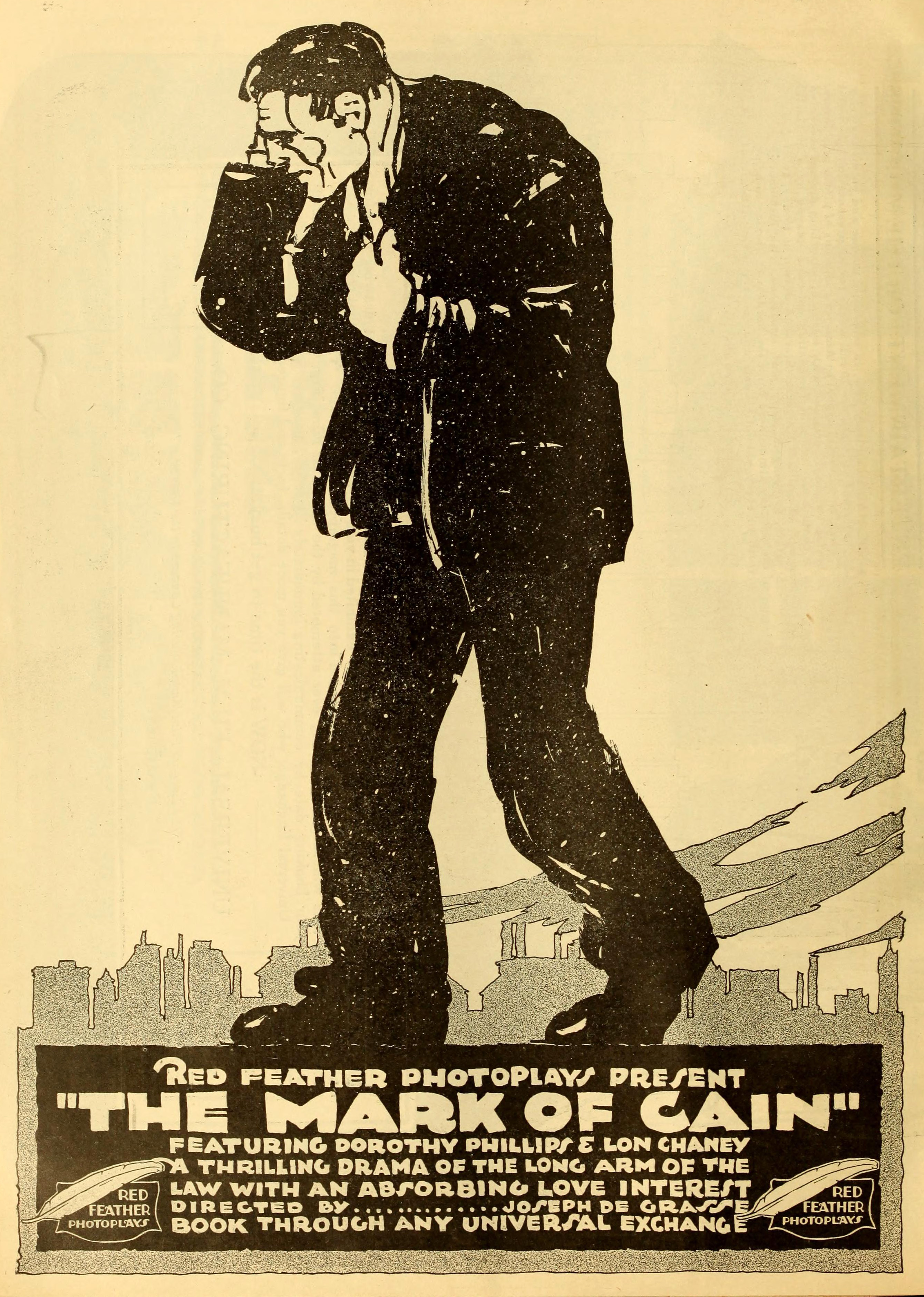 Advertisement in The Moving Picture World for The Mark of Cain (1916).